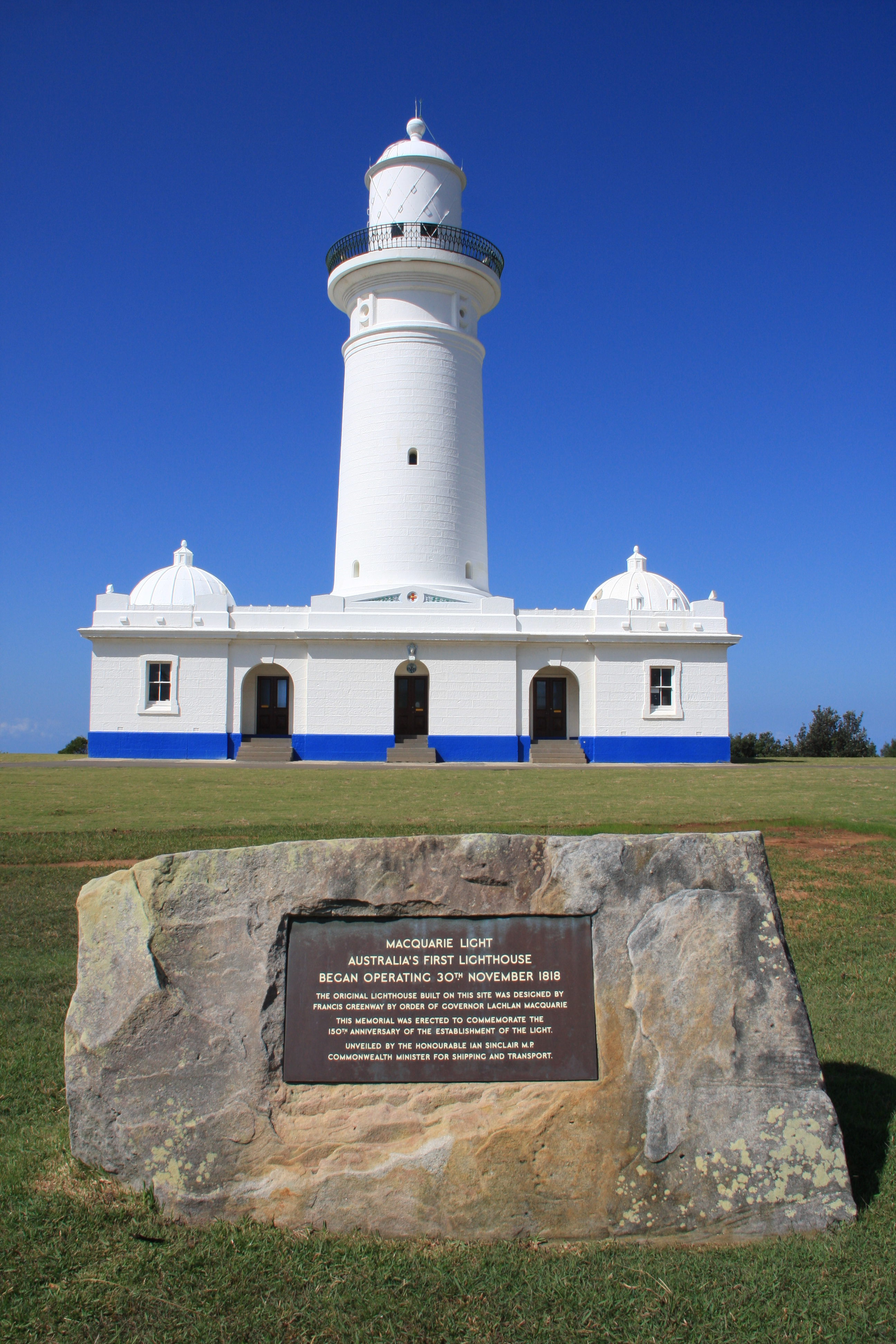 Light house Old South Head Road Vaucluse, New South Wales